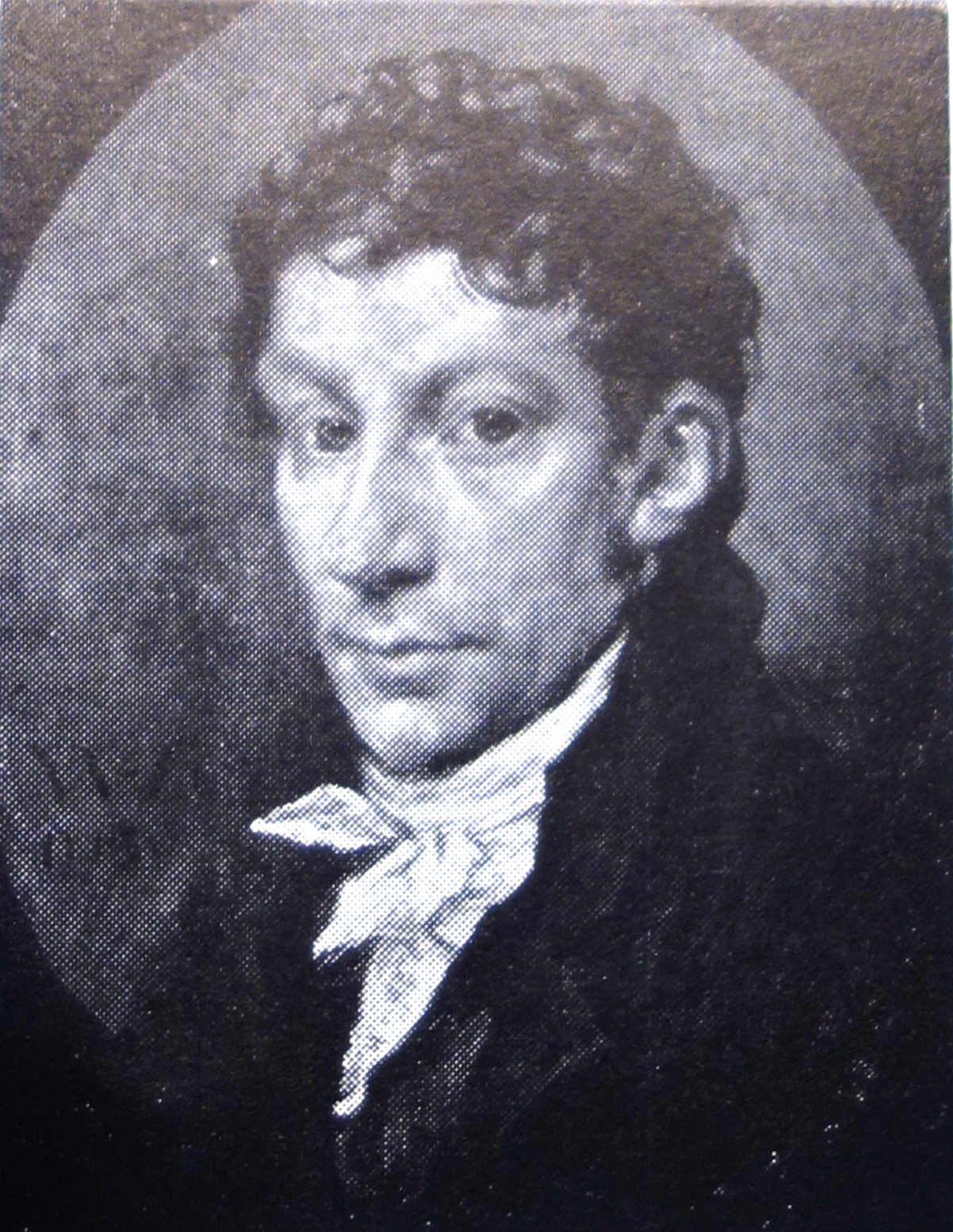 Portrait of Groninger professor Gerbrand Bakker by Wybrand Hendriks. (This is NOT the related painting of Bakker by Hendriks, made in the same year, see RKD. This painting: signed WH 1813 left of the shoulder. Painting was stolen from Faculty of Medicine, Rijksuniversiteit Groningen, in 1973.